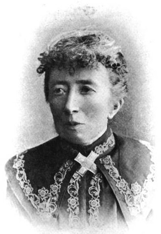 Photograph of Agnes Mary Clerke, the astronomer